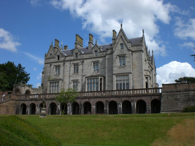 Lilleshall Hall from the South Location of National Sports Centre